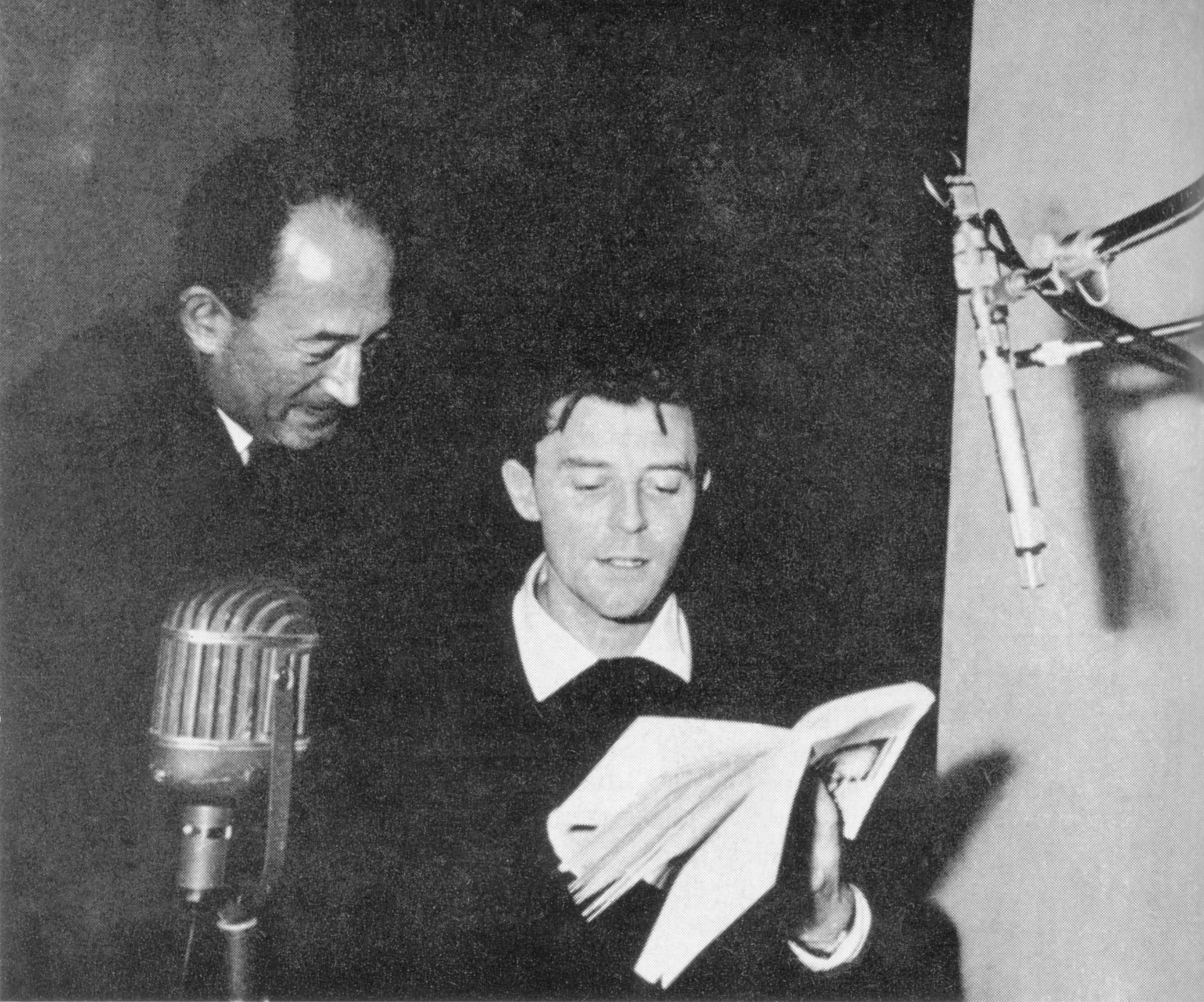 Gérard Philipe reading poems of Paul Eluard for Pierre Seghers, Paris 1955